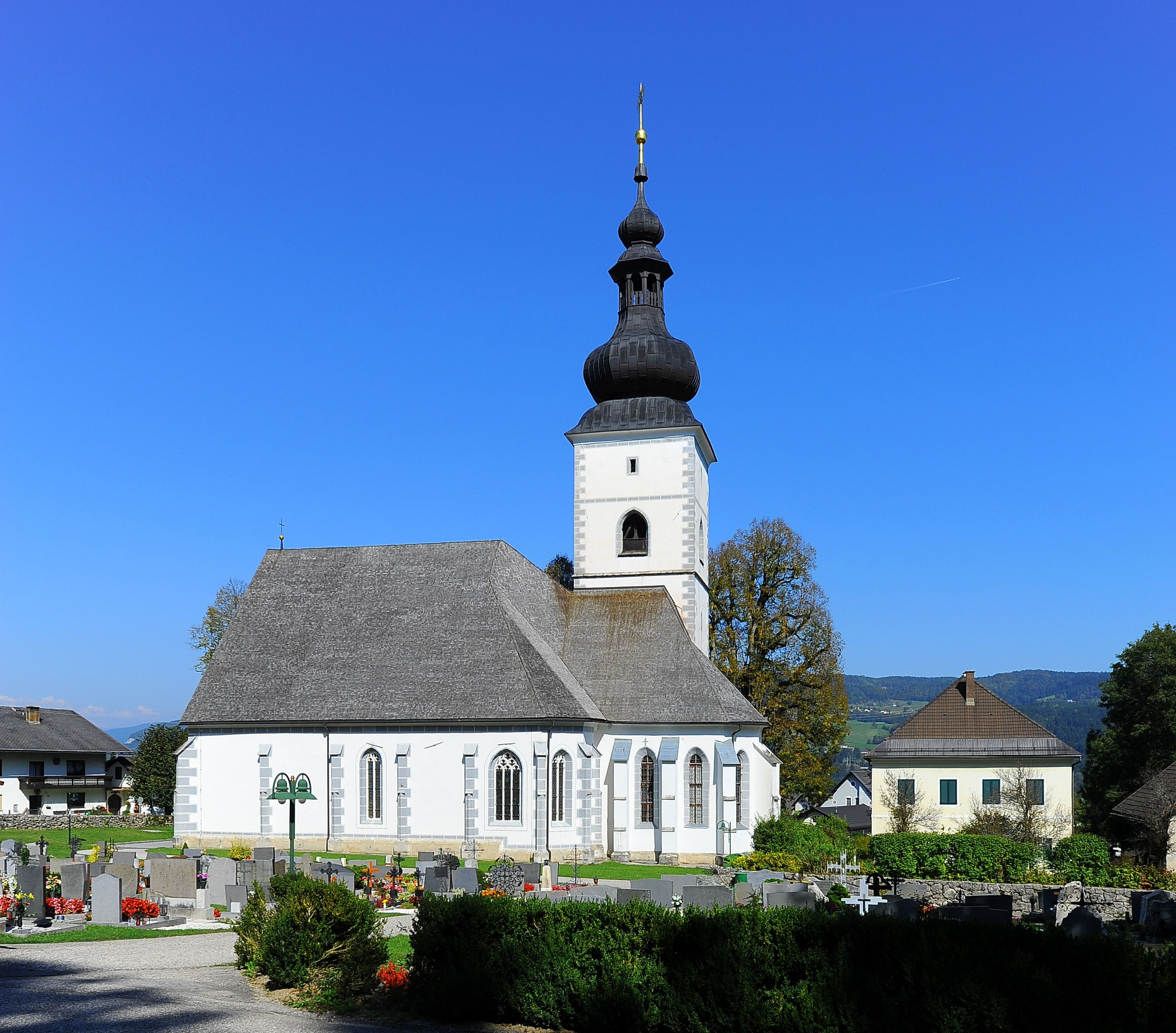 Parish and pilgrimage church Mary Misery in Maria Elend, municipality Sankt Jakob im Rosental, district Villach Land, Carinthia, Austria, EU